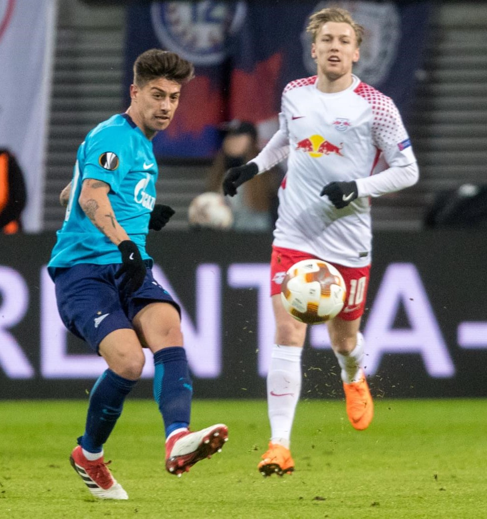 08.03.2018. Германия, Лейпциг, «РБ Арена». Лига Европы УЕФА 2017/18, 1/8 финала, «РБ Лейпциг» — «Зенит».